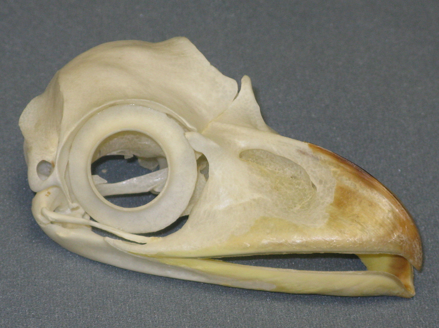 The Skull of a Tawny Frogmouth, From the Collections of Skulls Unlimited International.